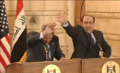 Former President Bush ducking in a press conference. The press conference takes place in the Prime Minister's Palace in Baghdad, two shoes were thrown by Al-Baghdadia TV journalist Muntadhar al-Zaidi. Bush avoiding being hit by the shoes, Nouri al-Maliki tried to catch this second shoe.